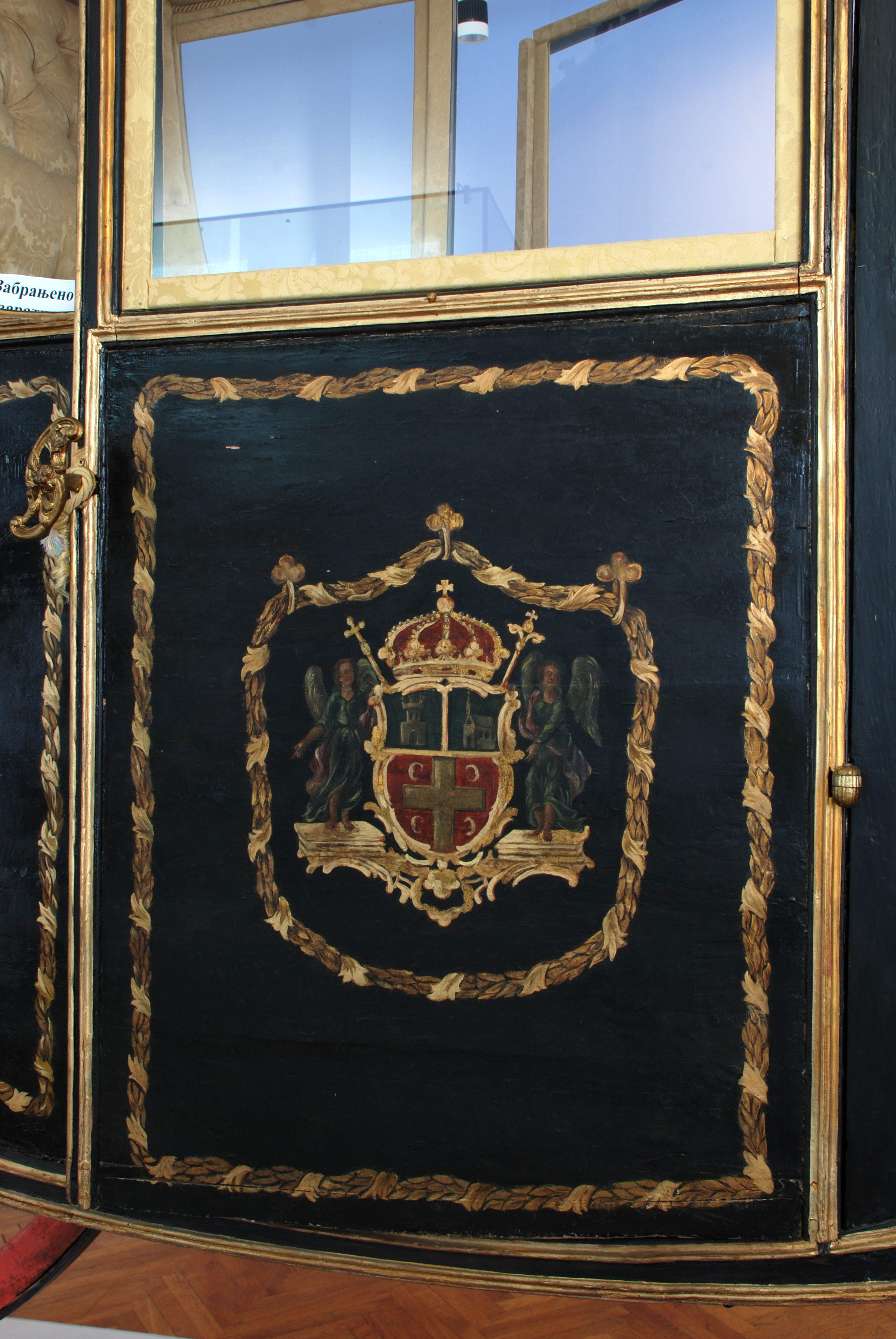 Coat of Arms of the Metropolitanate of Karlovci of the Serbian Orthodox Church on the side of carriage of the metropolitan of Karlovci (18th century). Srpski (latinica): Grb Karlovačke mitropolije na vratima svečanih kočija Karlovačkog mitropolita (18. vek).